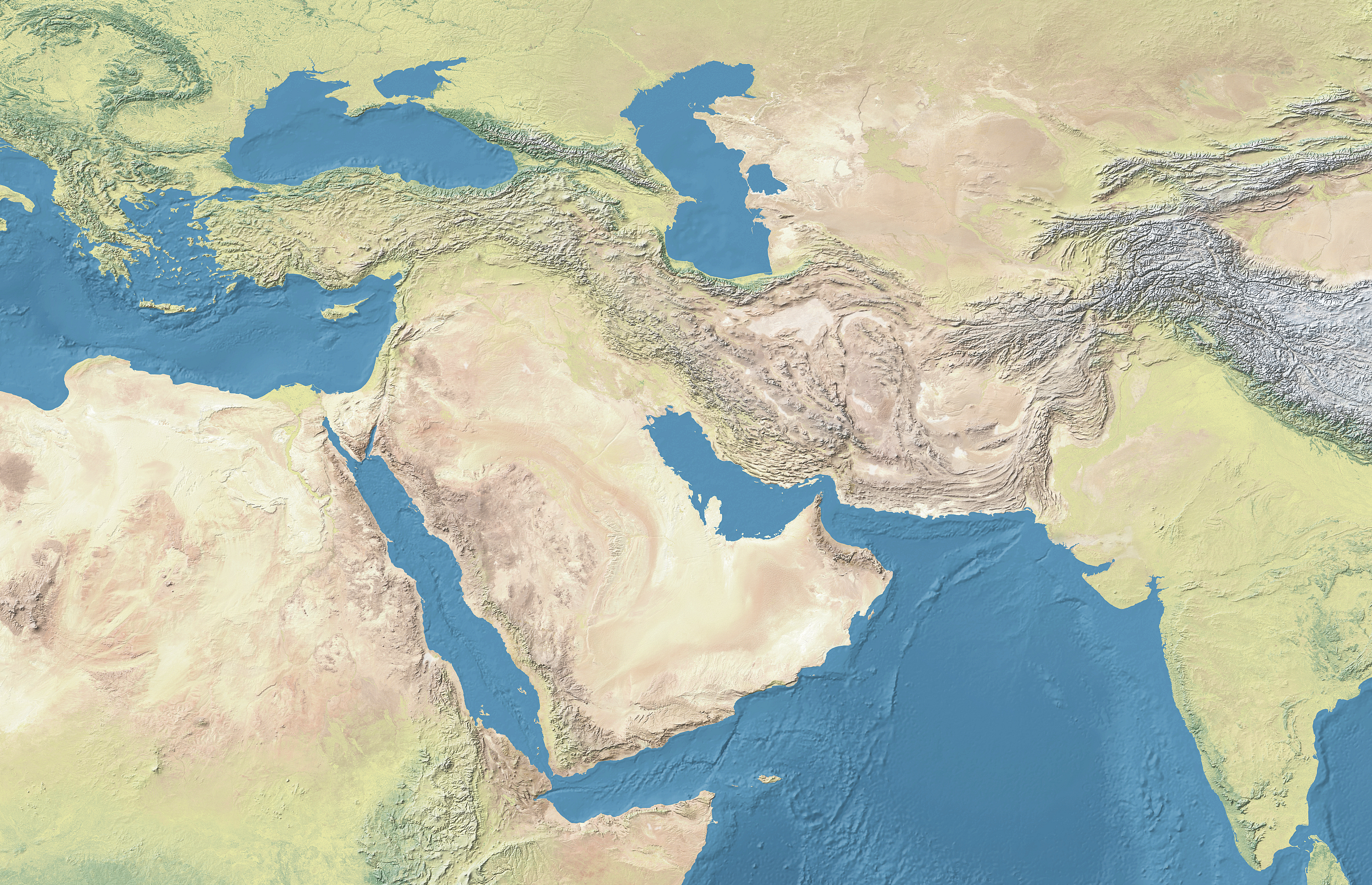 West Asia non political